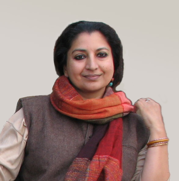 Geetanjali Shree, New Delhi